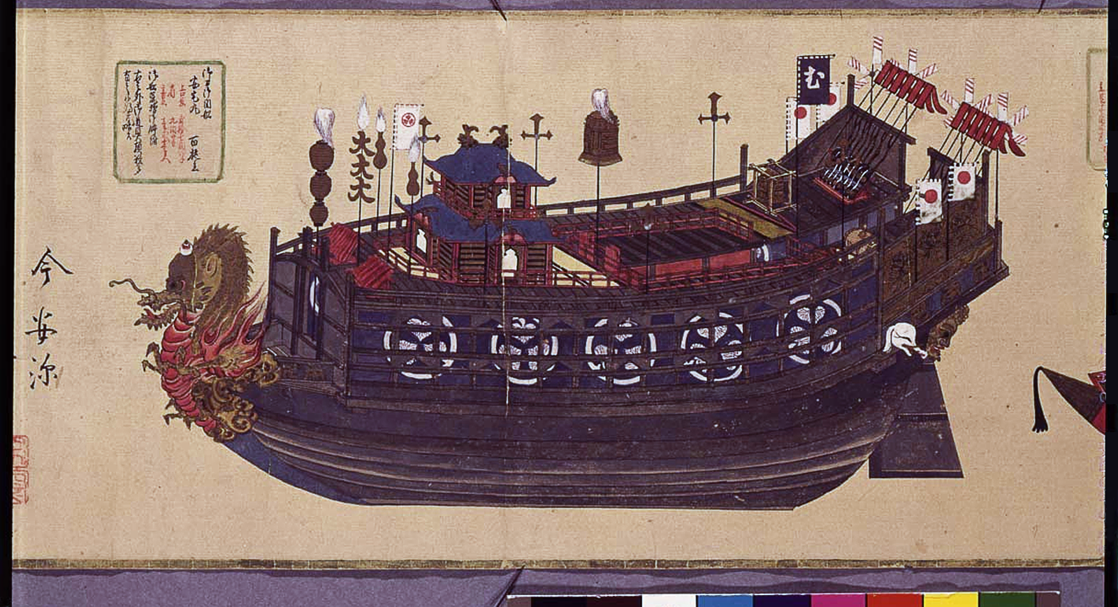 Japanese Tokugawa warship called Ataka Maru (from mifune map). It is an Atakebune ship.